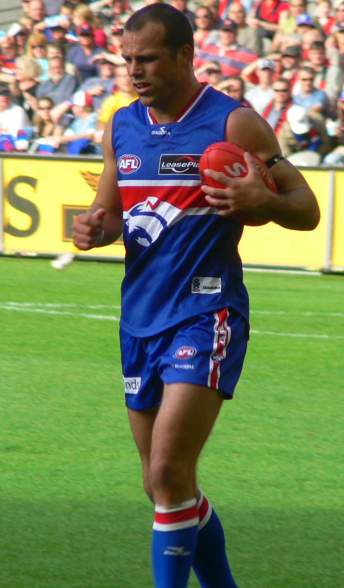 Brad Johnson, Australian rules football player